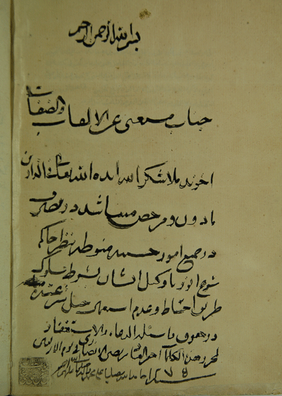 Manuscript by "Sheikh Ansari"